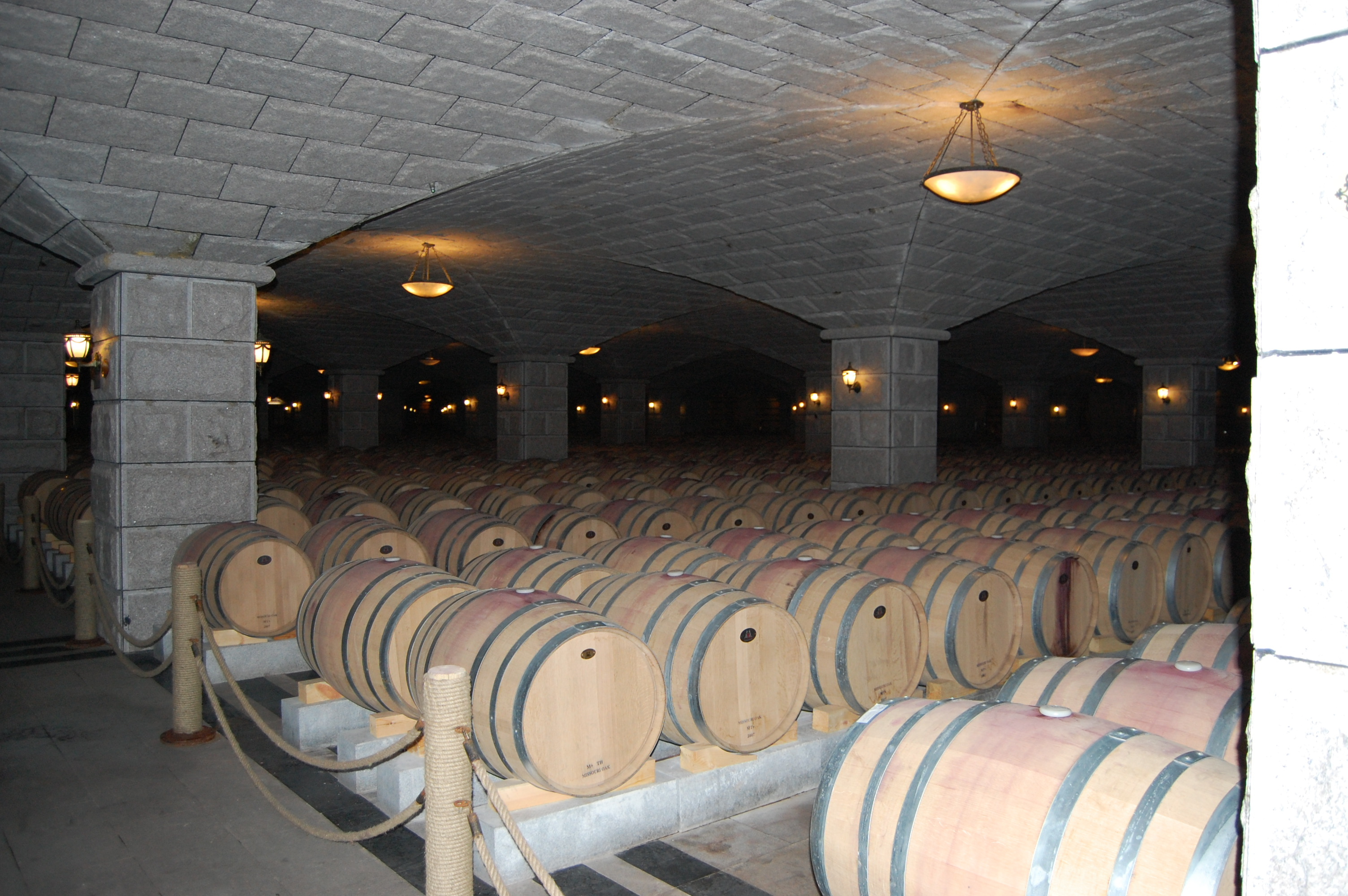 Wine cellar in Jiayuguan, the biggest of Asia